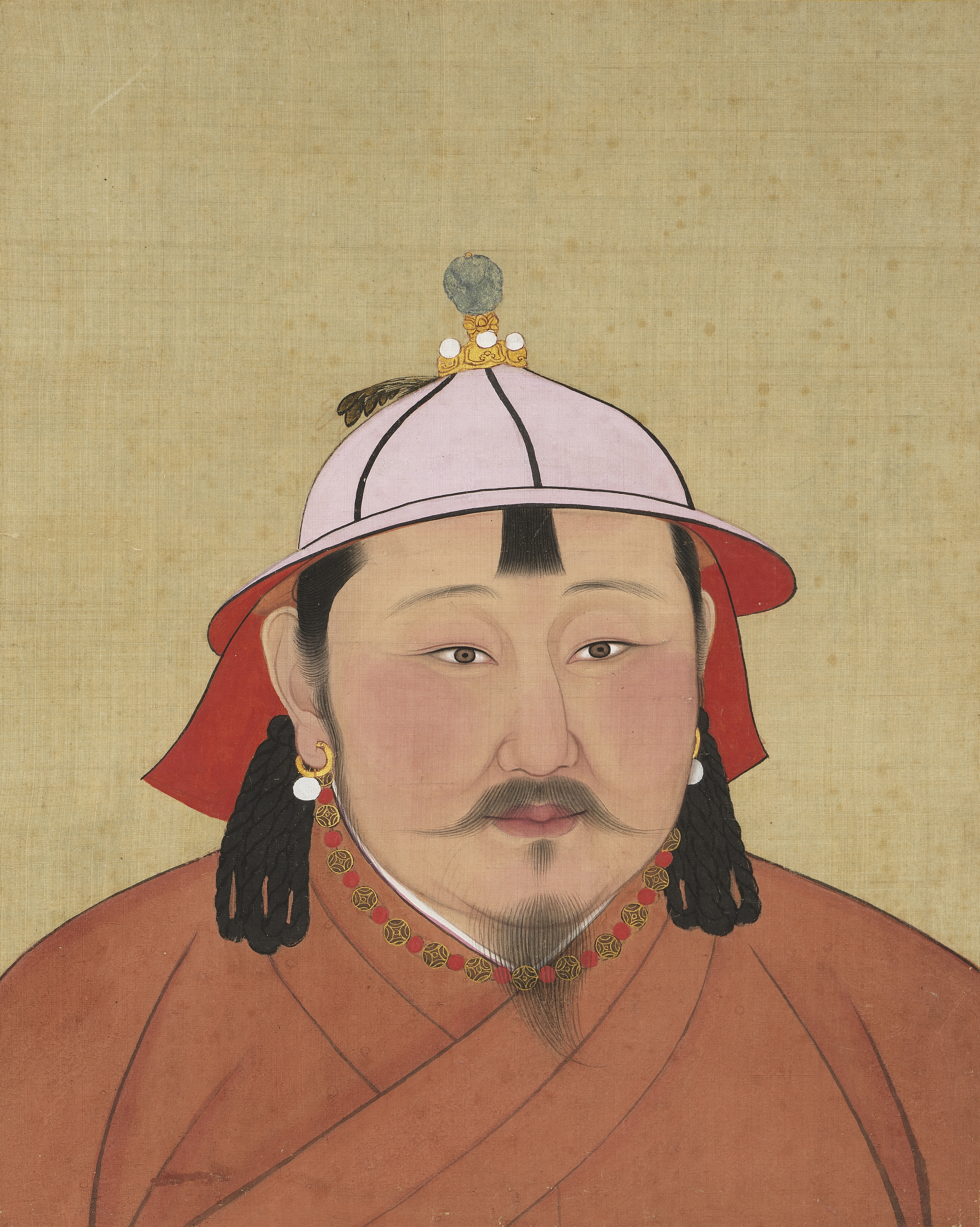 Chengzong, a.k.a. Temür, a.k.a. Öljeitü Khan. Portrait cropped out of a page from an album depicting several Yuan emperors (Yuandai di banshenxiang), now located in the National Palace Museum in Taipei (inv. nr. zhonghua 000324). Original size is 47 cm wide and 59.4 cm high. Paint and ink on silk. For the full page, see Image:YuanEmperorAlbumTemurOljeituFull.jpg.